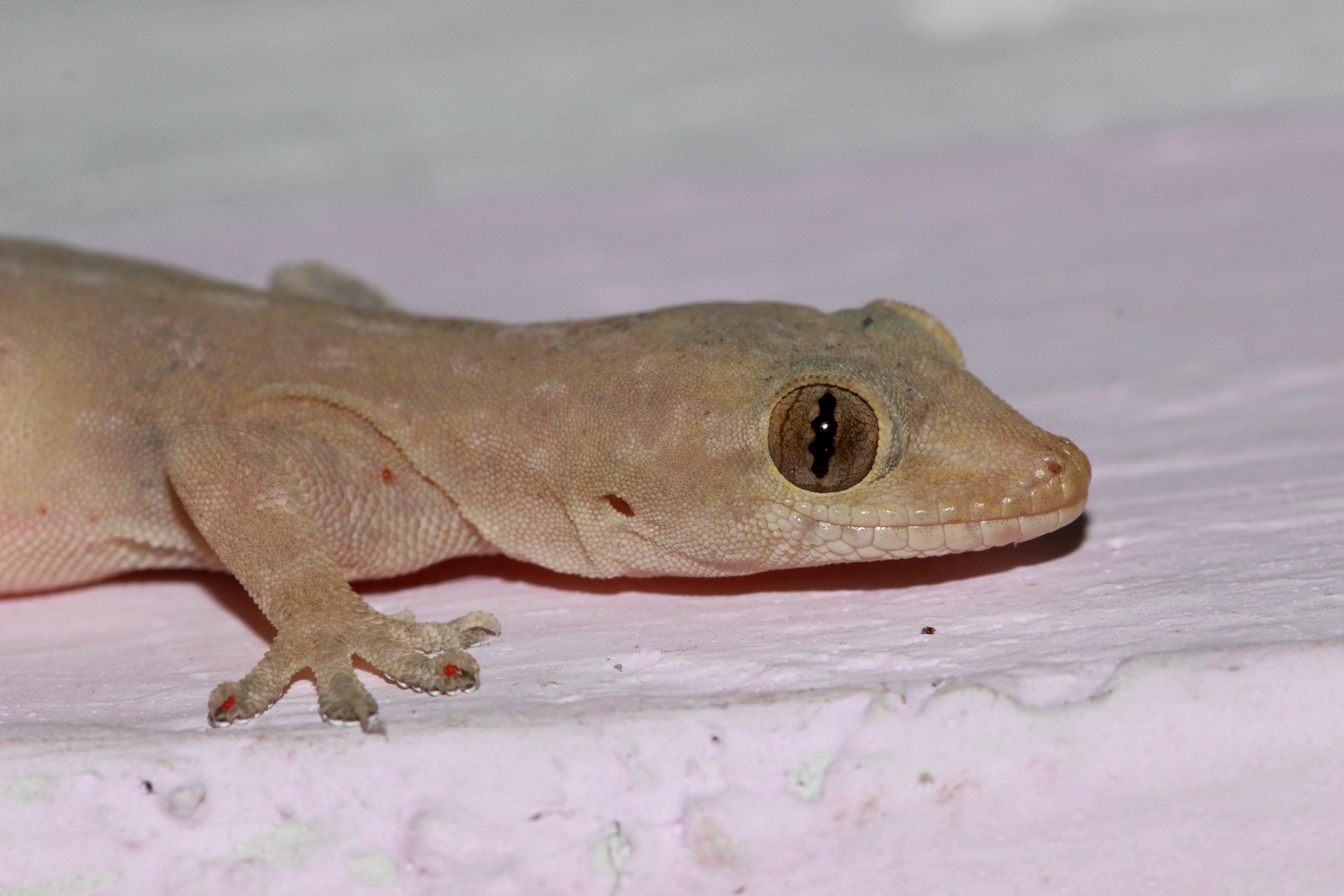 The common house gecko (Hemidactylus frenatus) (not to be confused with the Mediterranean species Hemidactylus turcicus// known as Mediterranean house gecko), is a reptile native of Southeast Asia. It is also known as the Pacific house gecko, the Asian house gecko, house lizard, or Moon Lizard.